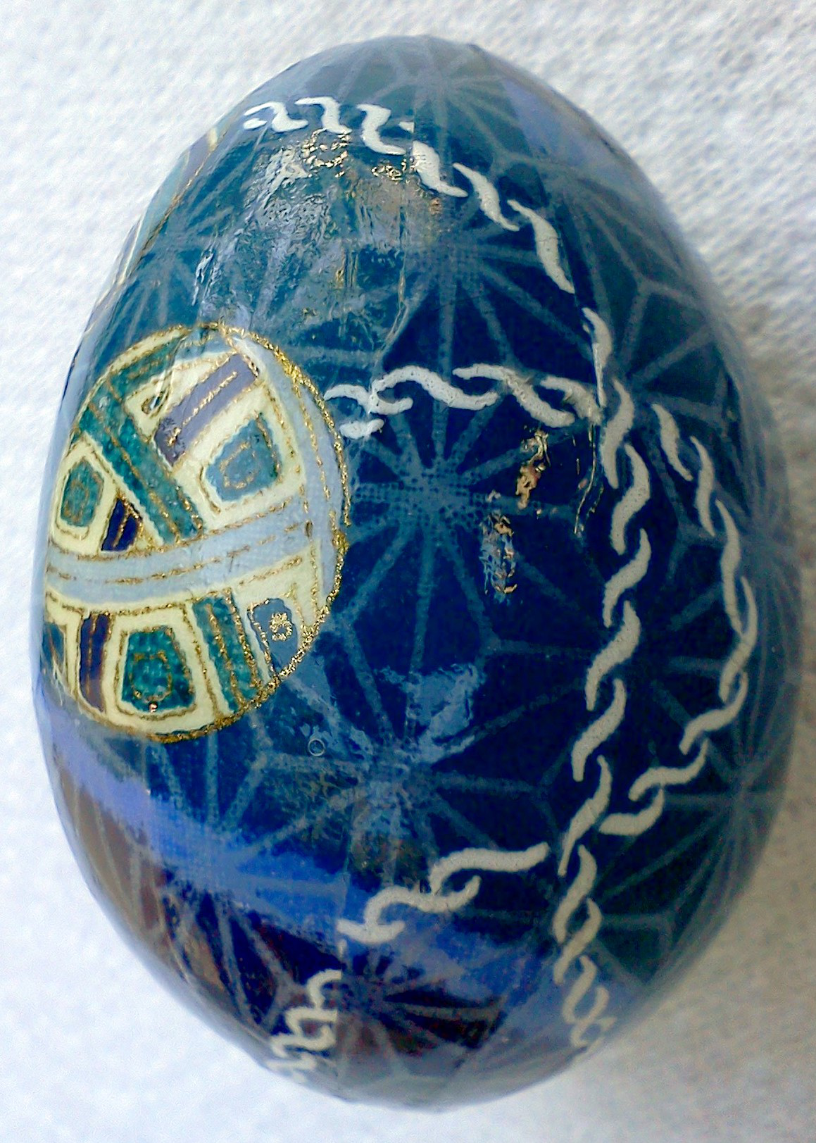 A blue washi egg that was created by my co-worker's wife using the technique she learned while they were deployed in Japan.